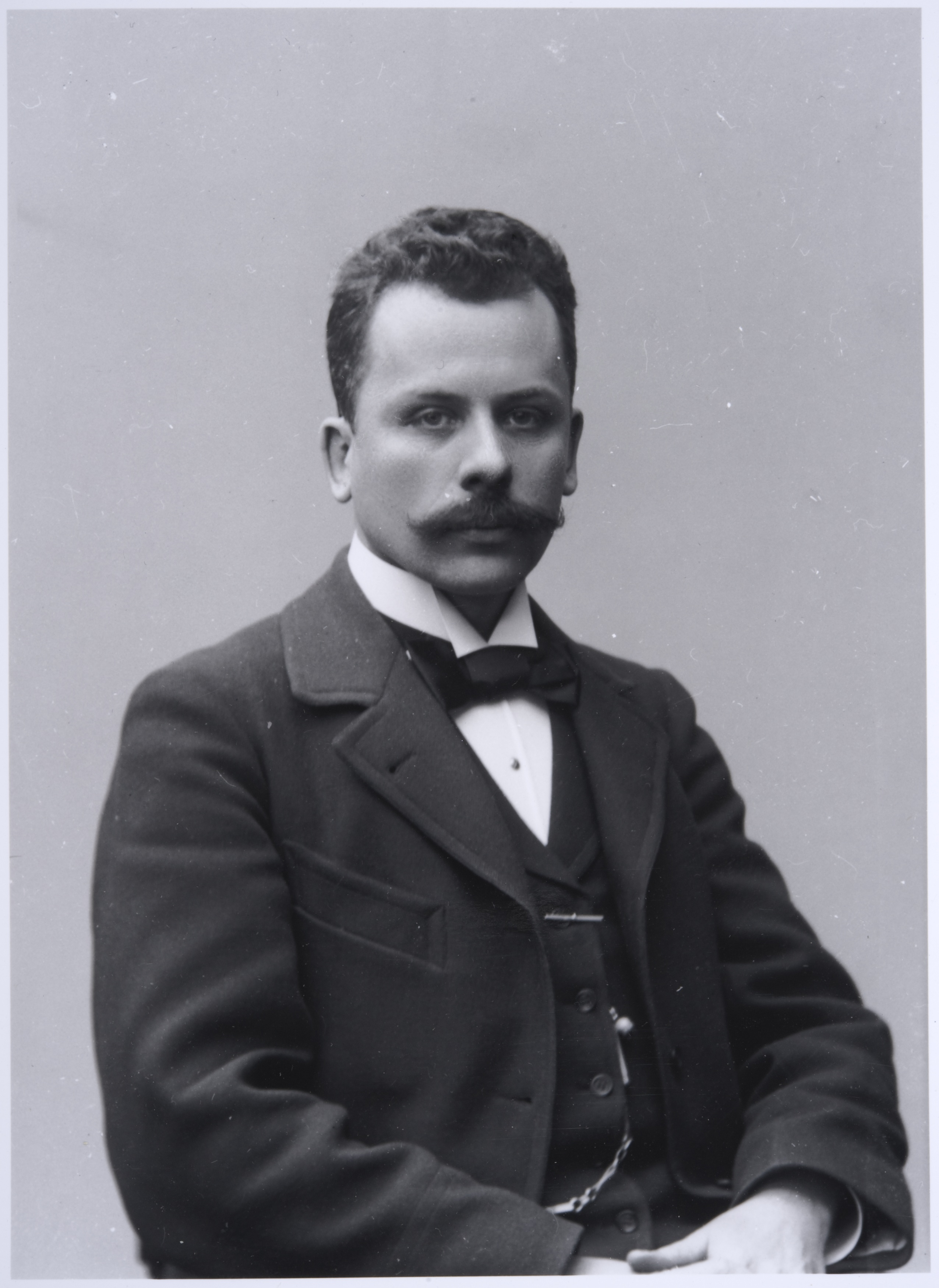 Photograph of the Finnish linguist and professor Johannes Öhquist (1861–1949).